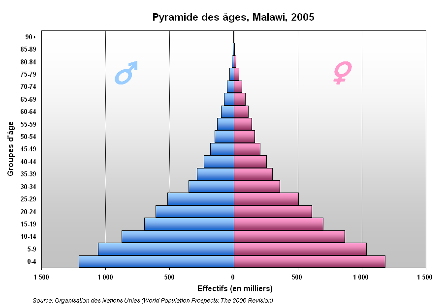 Malawi Population pyramid, 2005